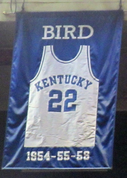 A jersey honoring Jerry Bird hanging in Rupp Arena in Lexington, Kentucky